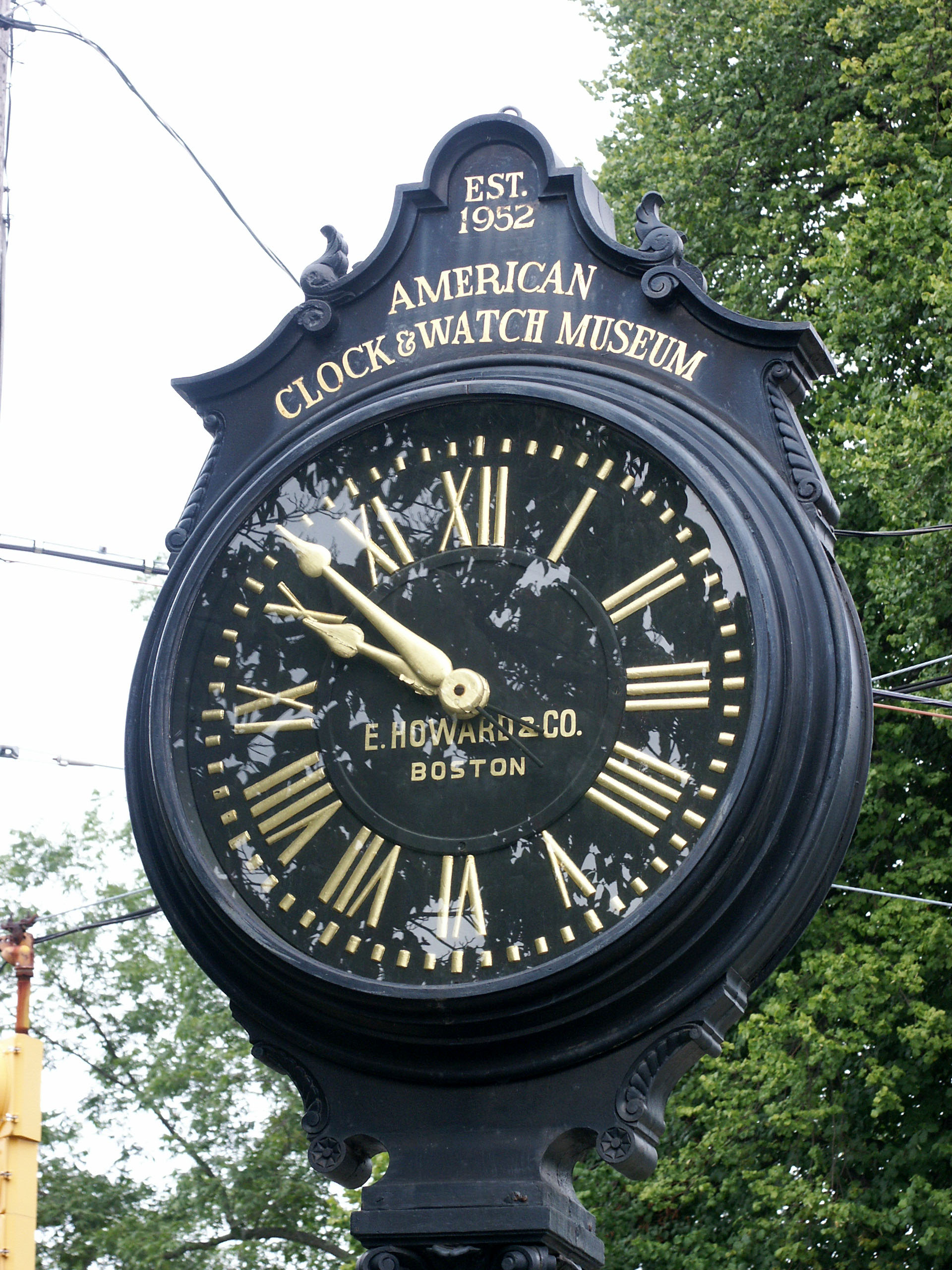 Streetclock by Howard in front of American Clock and Watch Museum in Bristol CT